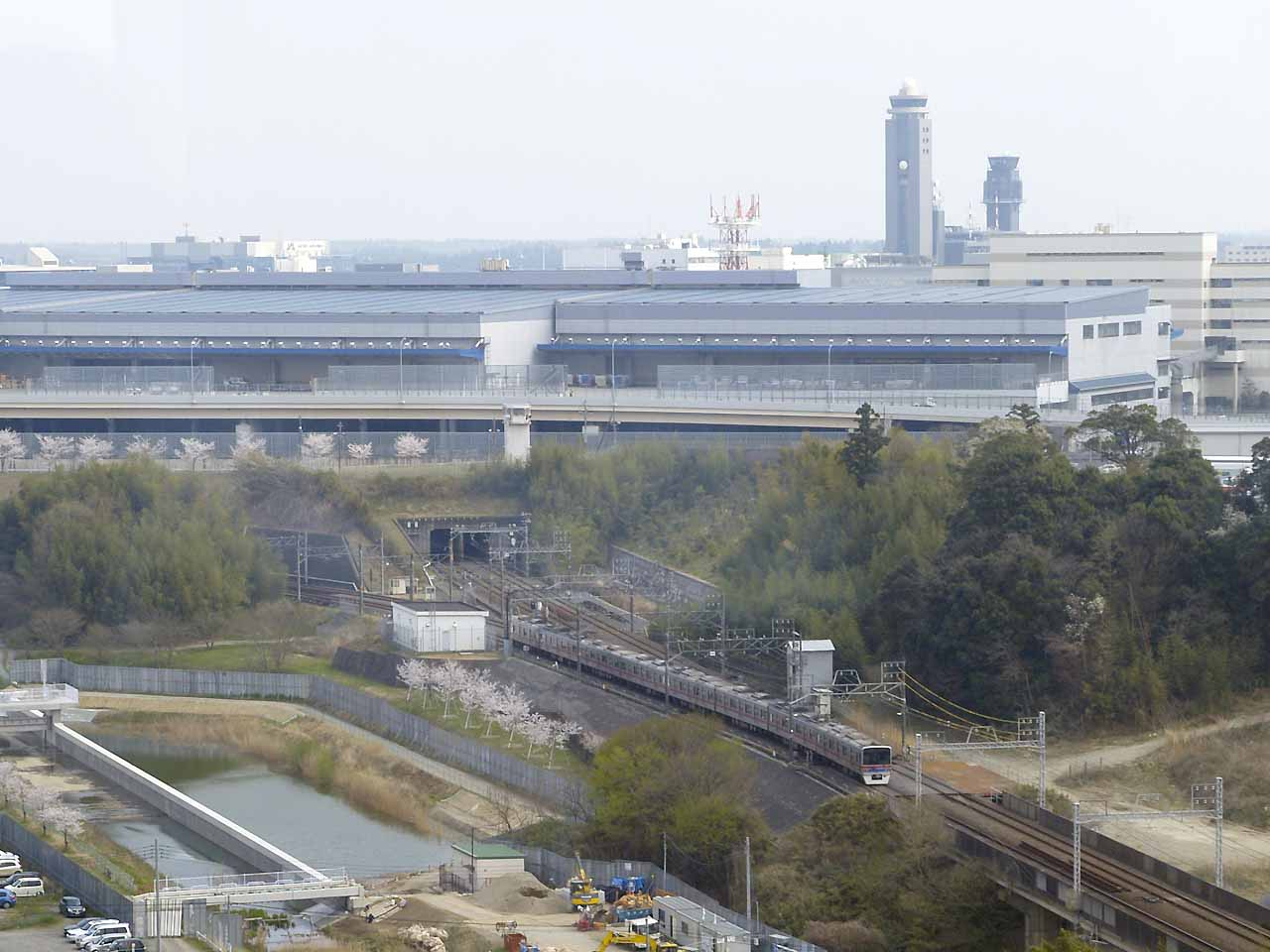 Keisei Electric Railway Komaino Junction, dividing Higashi-Narita Line/Shibayama Railway from Keisei Main Line, located next to the Narita International Airport. Viewed from Marroad International Hotel Narita